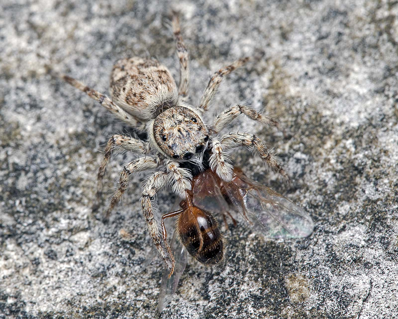 Predator: Unknown species, Family:Salticidae Prey: Winged ant 8mm cryptic colored wall jumper (bushy pedipalps) with kill (probably solenopsis sp), shot with diffused internal flash. Amazing camouflage, as I have seen this species brownish in color. I guess, I wouldn't have noticed it if not for its shiny kill.